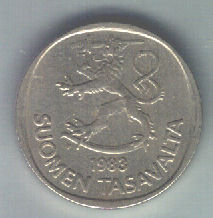 1 Finnish mark (FIM), 1983, face, based on Paginazero's work